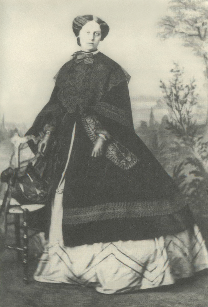 Photograph of Louisa Matilda Jacobs, daughter of Harriet Jacobs.